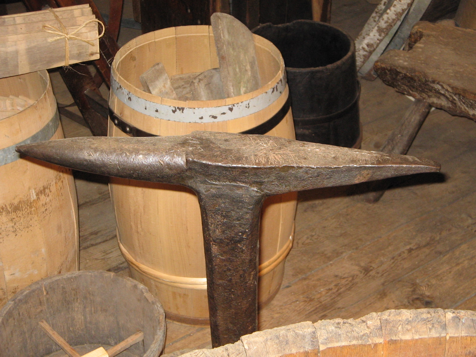 Cooper's anvil. Photo from "Kajsergaarden", Randers. This file was made by B. M. Askholm, Please credit this: B. Askholm foto, 2006 An email to B. Mathias at baskholm(--) would be appreciated too.